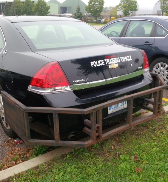 A police training vehicle with extended front and rear push bars